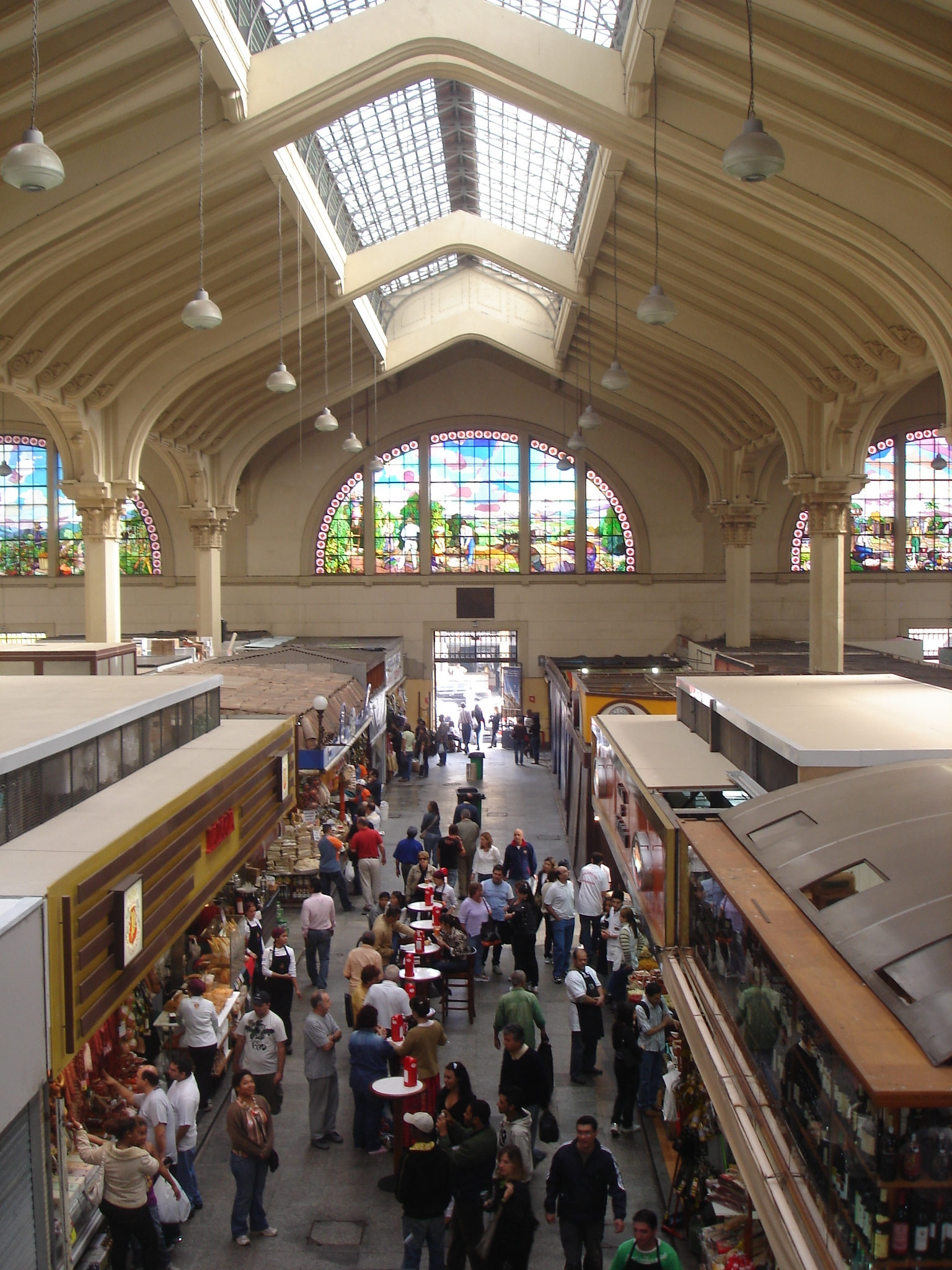 Mercado Municipal de São Paulo ou Mercadão